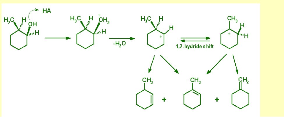 Mechanism for the dehydration of 2-methylcyclohexanol